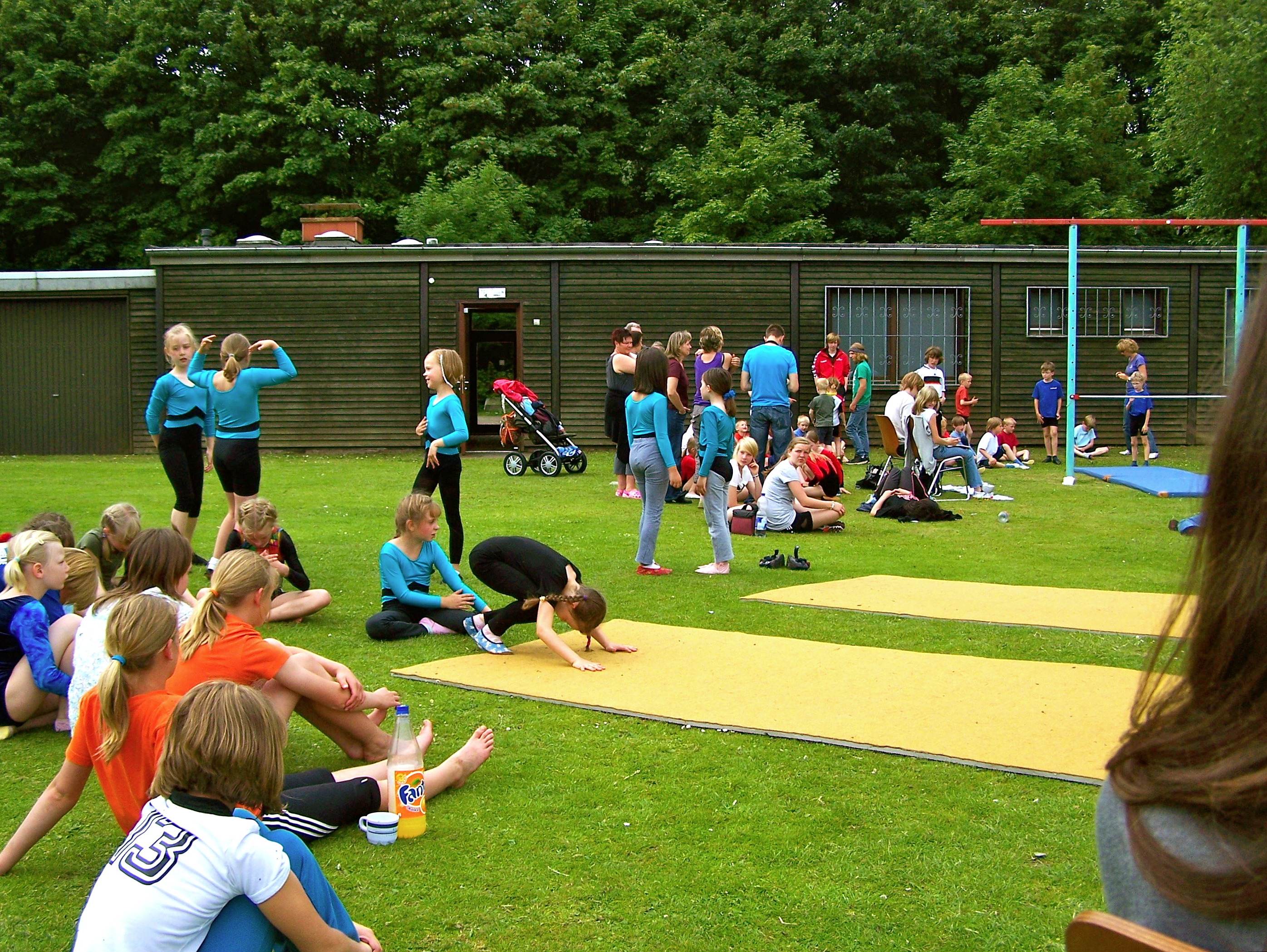 Preparations for gymnastics competition during Jahn Bergturnfest 2009 at Bückeberg, Lower Saxony, Germany